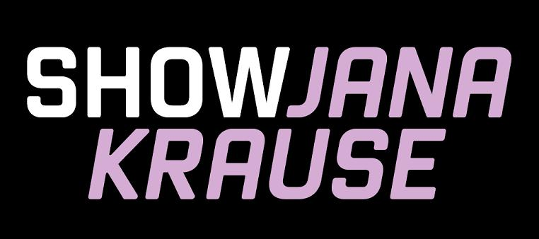 Logo of Czech talk show Show Jana Krause